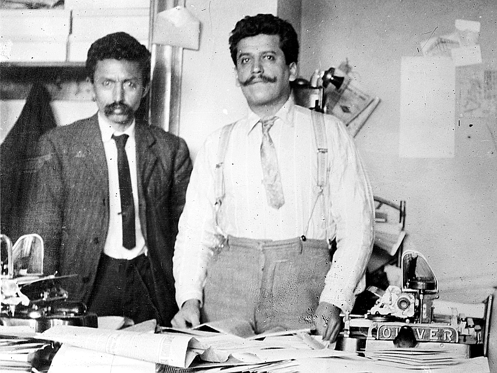 Librado Rivera and Enrique Flores Magon, publishers of "Regeneracion" anarchist newspaper. Maybe at Los Angeles, California.